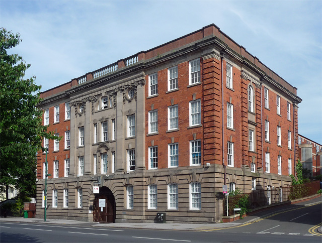 174 Derby Road, Nottingham